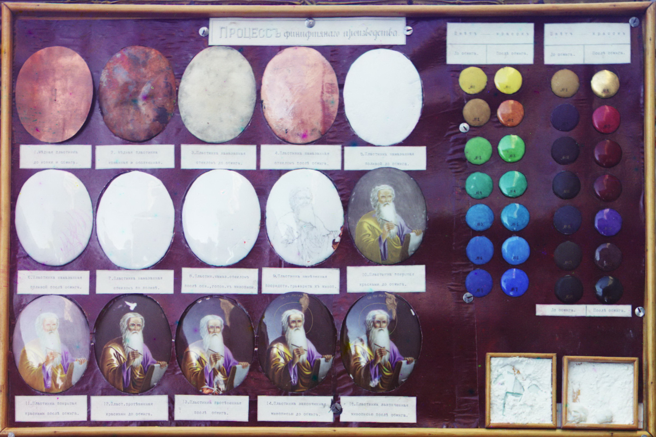 Finift painting process